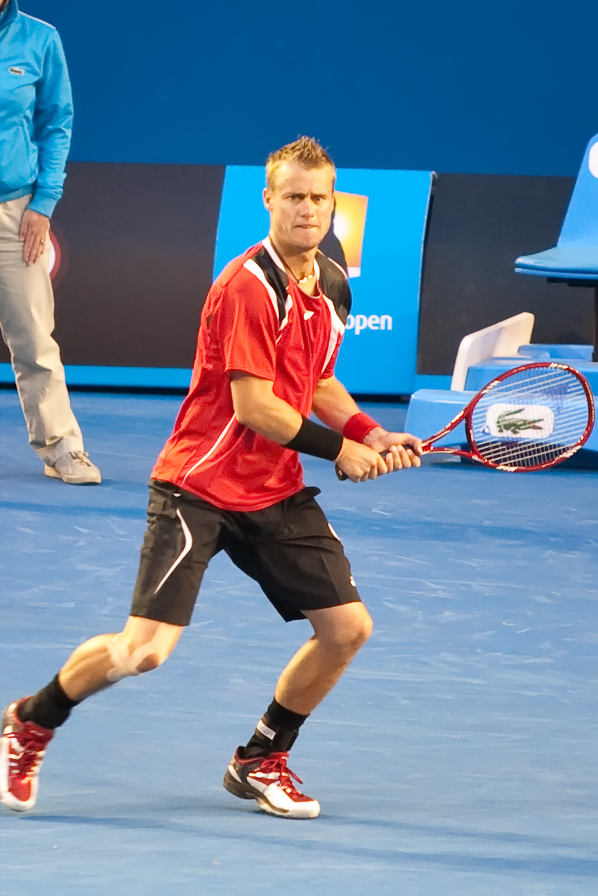 Lleyton Hewitt. Day 2 at the Australia Open, Melbourne.